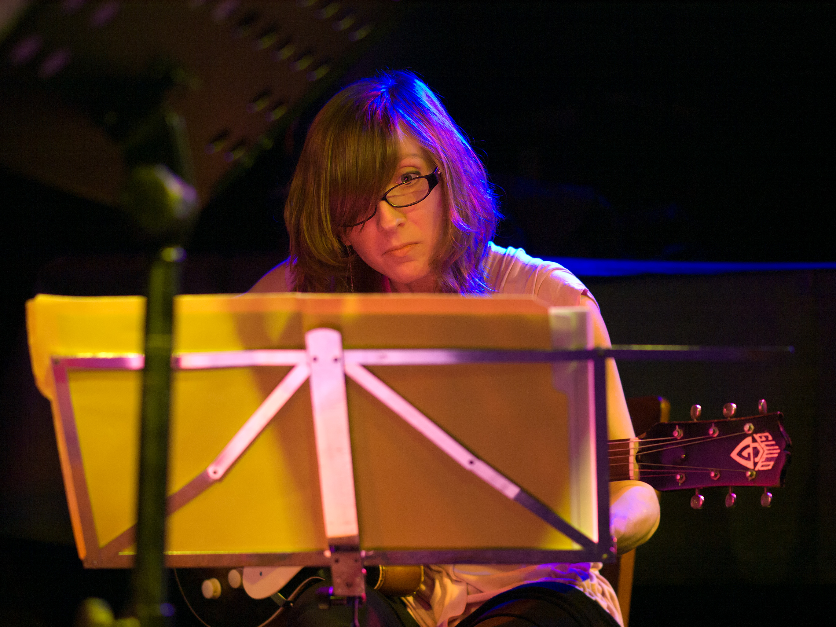 Mary Halvorson, Jazz guitarist; Picture taken in Jazz Club Unterfahrt, Munich/Bavaria